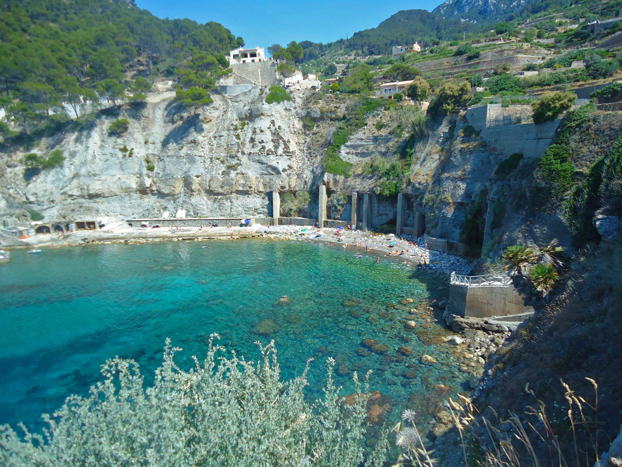 Creek located near the town of Valldemossa, between Punta sa Galera and sa Pedra de s'Ase. (Banyalbufar, Mallorca, Balearic Islands). This is a a photo of a beach in the Balearic Islands, Spain, with id: PL-IB-19104